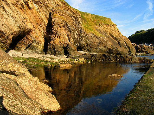 The Base of Lester Cliff : Combe Martin. Rocks at the base of Lester Cliff in the evening sun at Combe Martin.